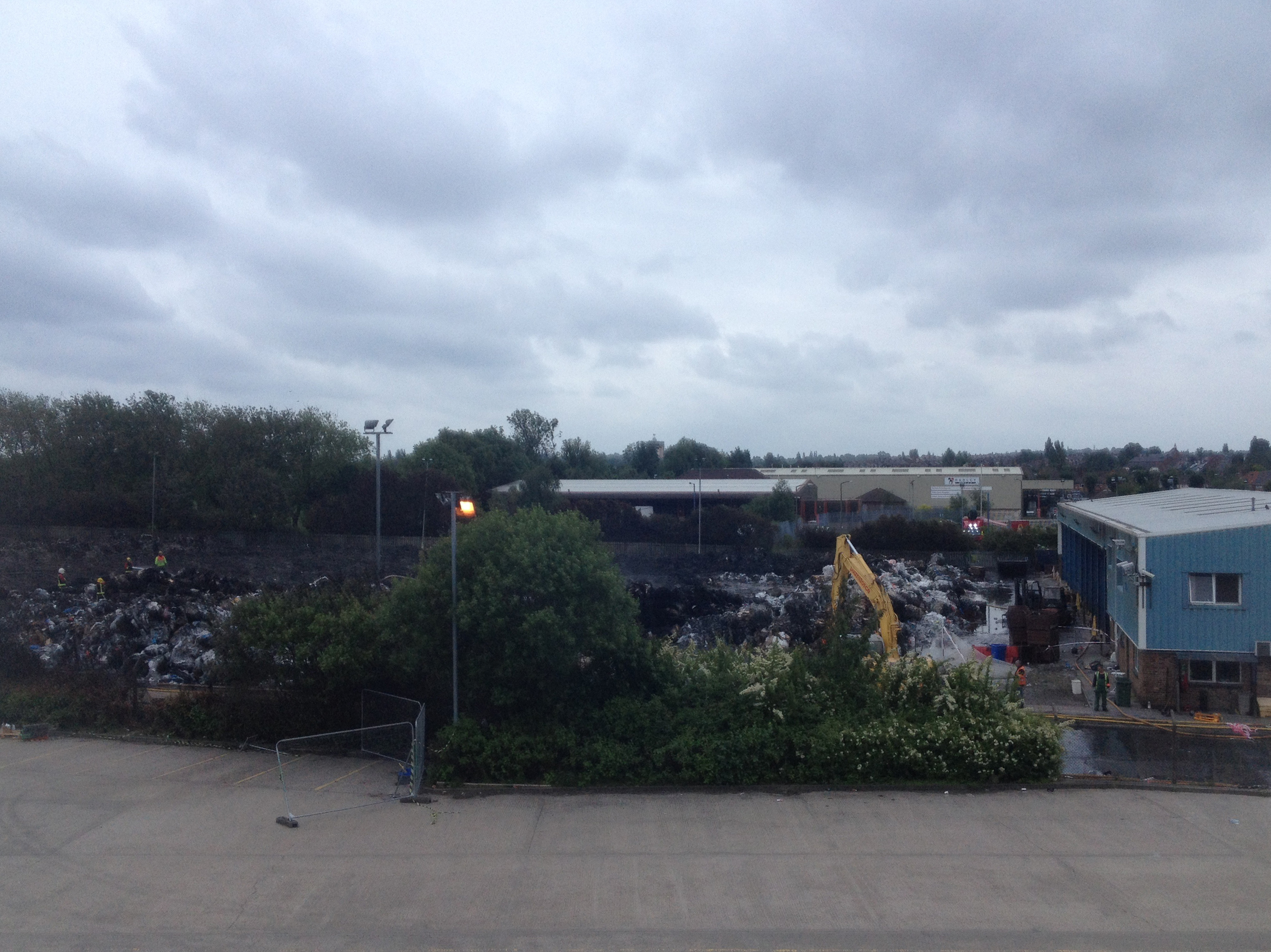 Photograph of the aftermath of the fire at the Jayplas recycling site in Smethwick, West Midlands taken 02/07/2013